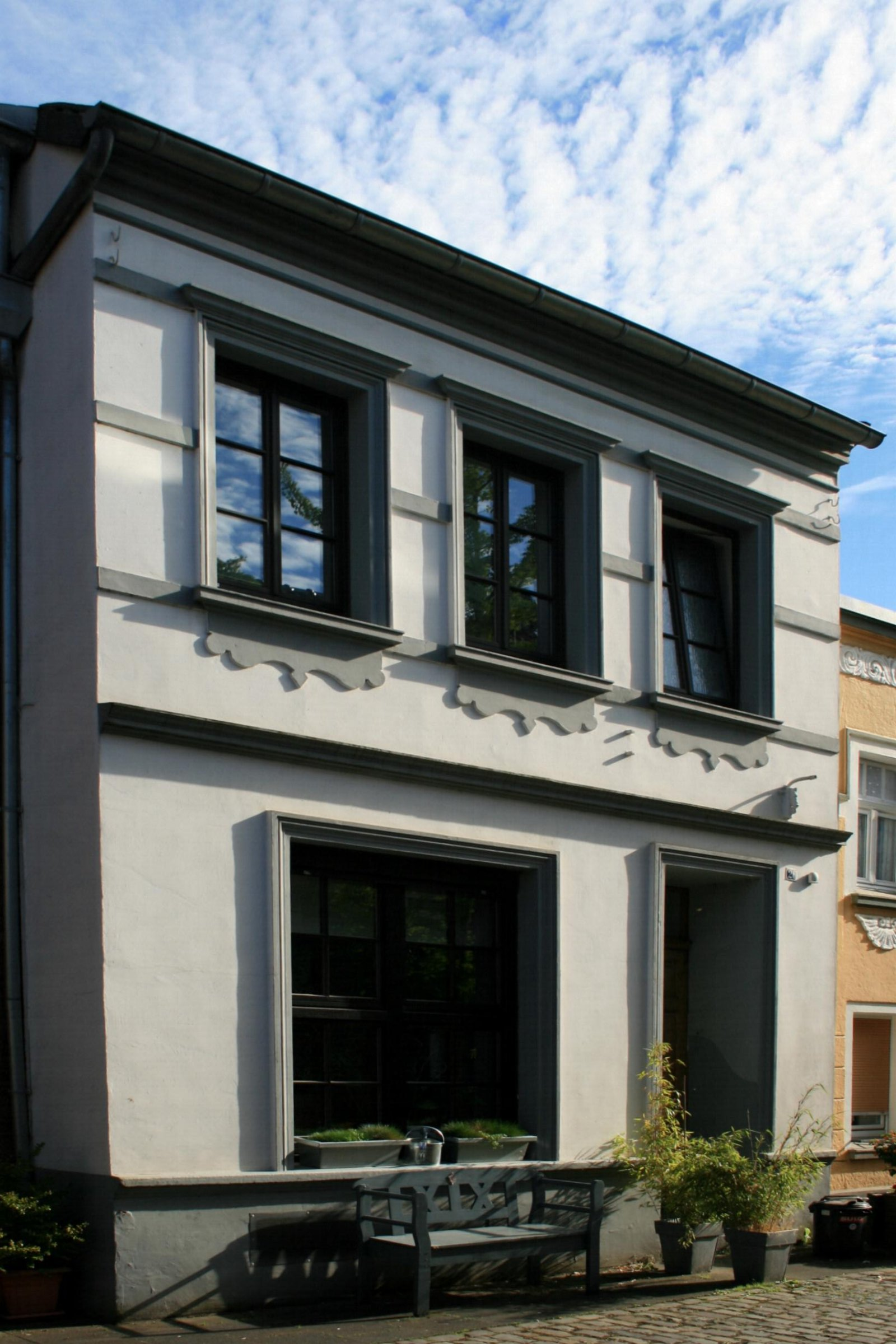 Cultural heritage monument No. St 021 in Mönchengladbach